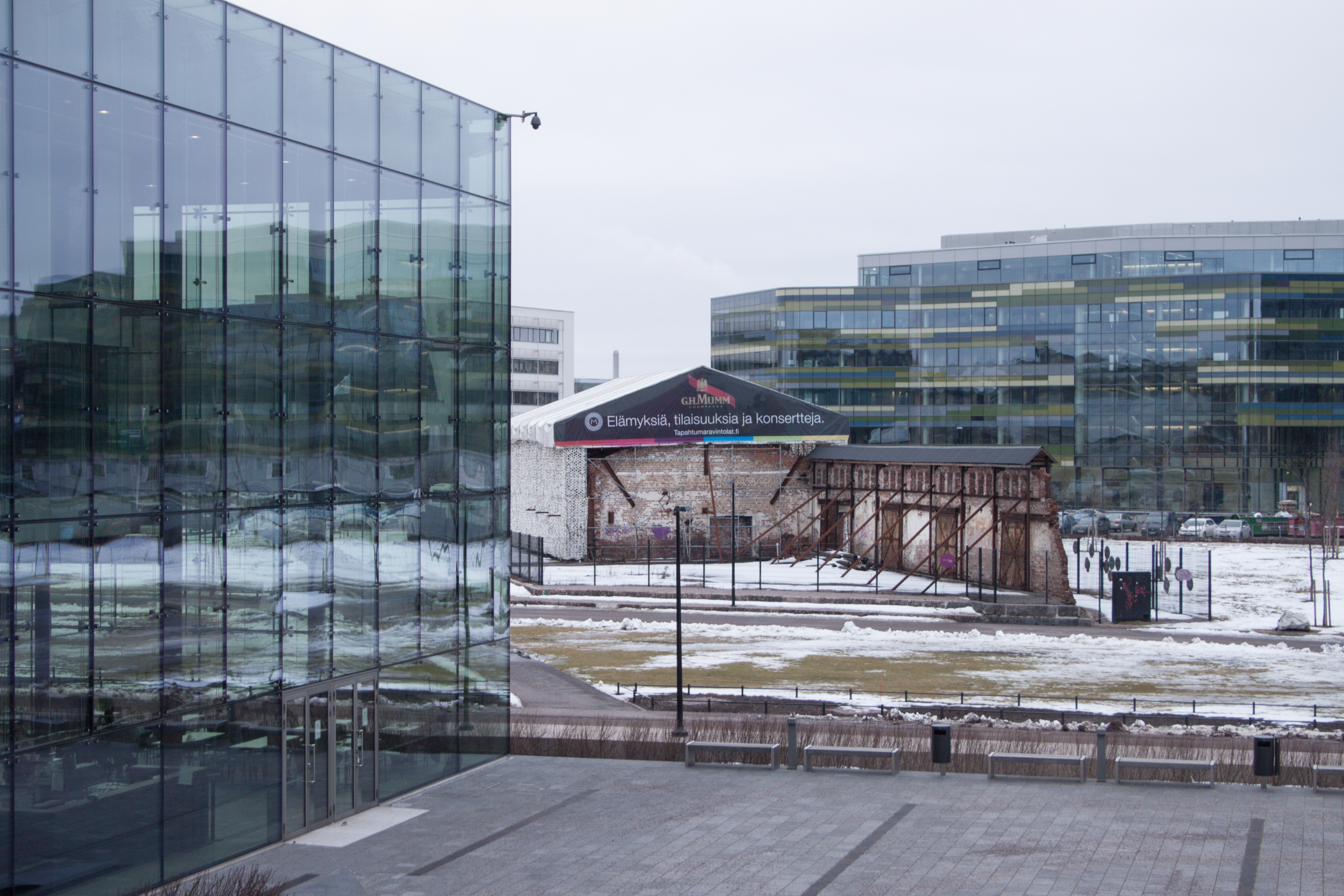 VR Warehouses